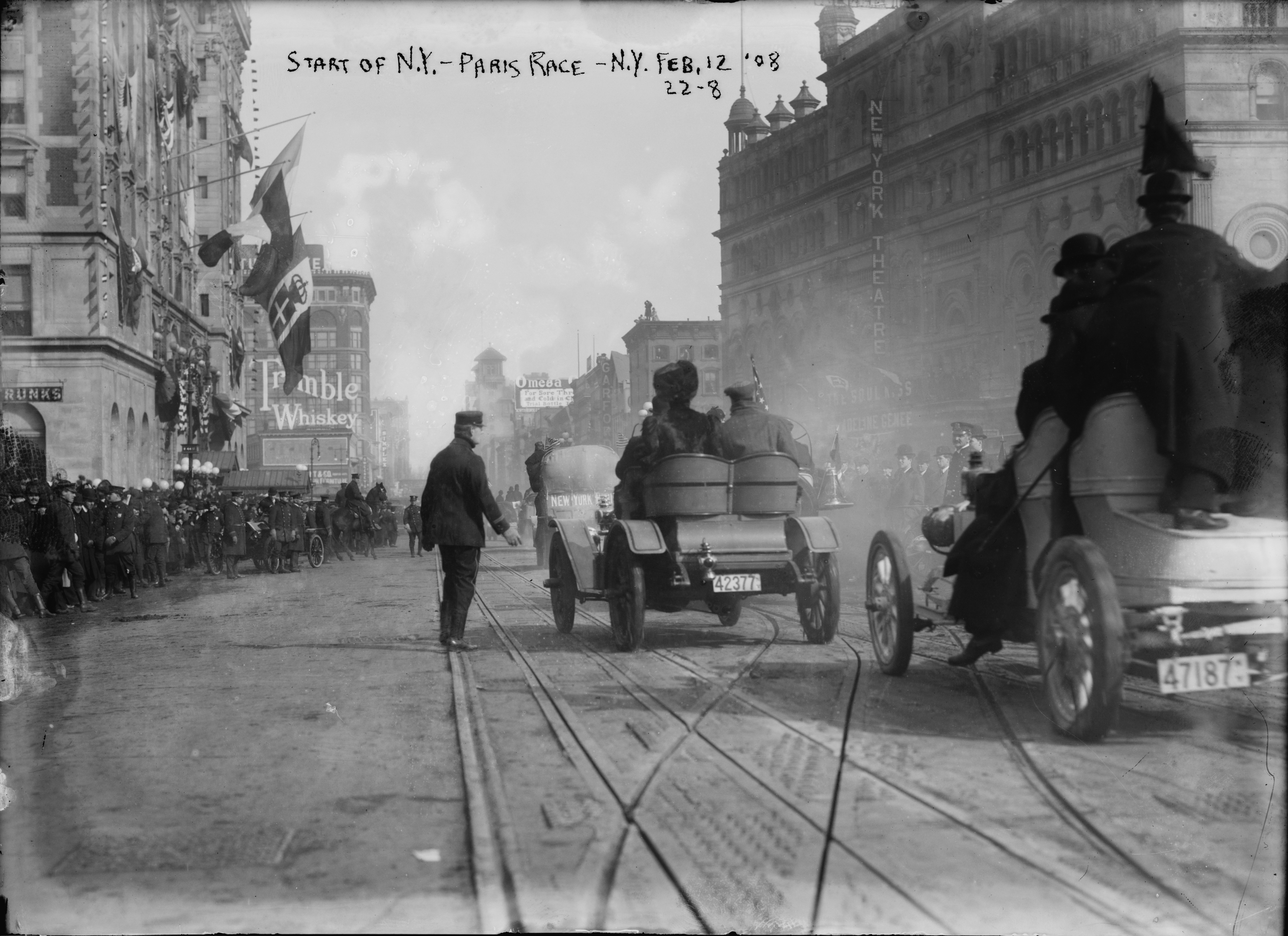 Start of the 1908 New York to Paris Race